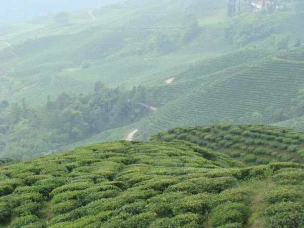 Avongrove Tea Estate: Tea bushes maintain the contours of the hills, blanketing every crest and every vale